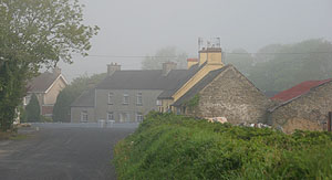 View of the crossroads at Hurlers crross. The yellow building on the right is the main shop and used to be the local post office. Author: Taco van der Waal